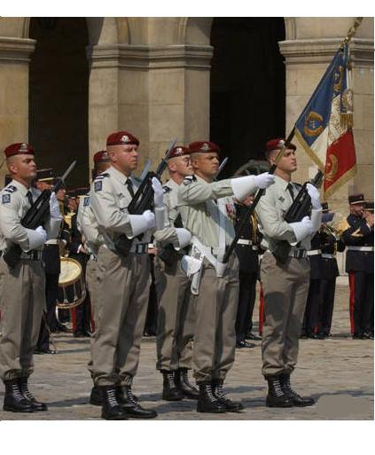 Guard the banner of the 1st Hussars paratroopers (France 2012).